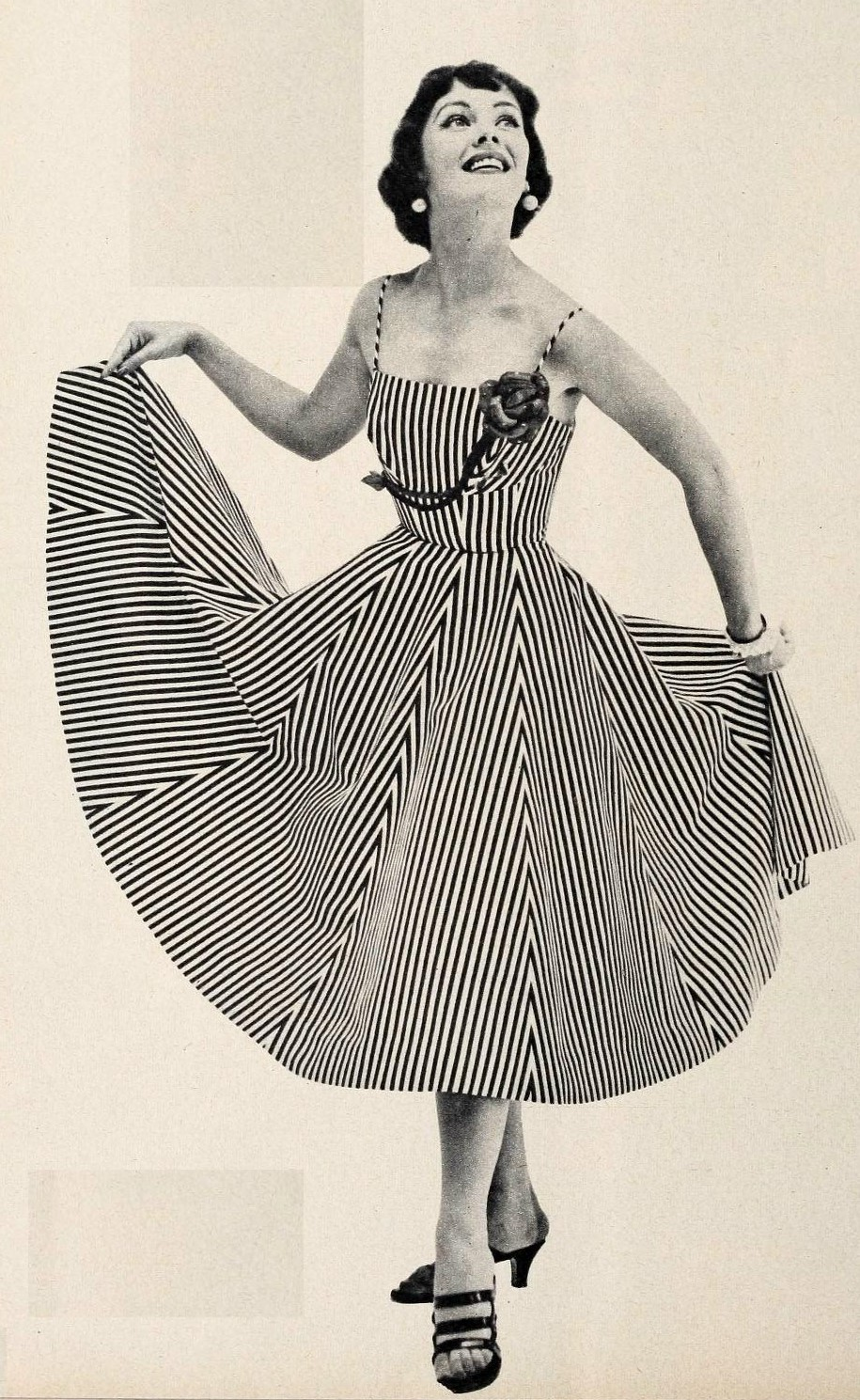 Phyllis Kirk wears a dress by Betty Carol for Mr. Mort, 1954